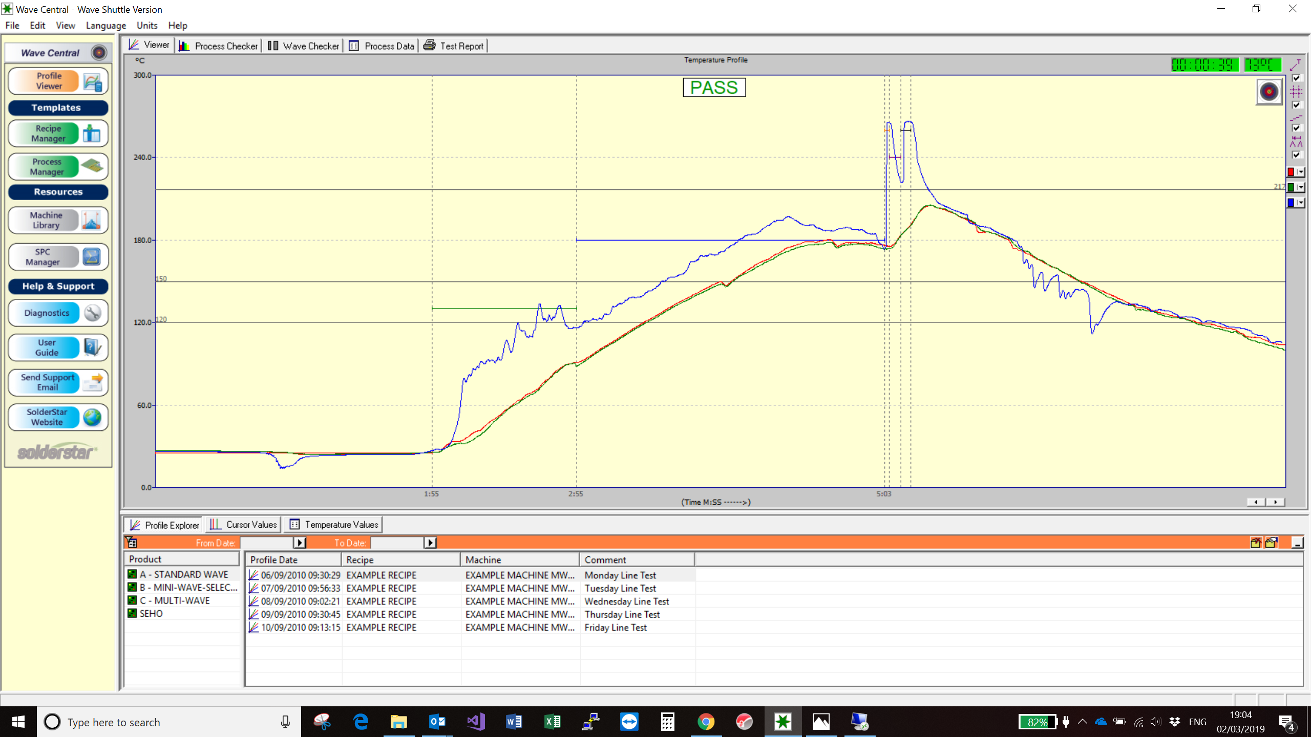 Wave solder machine temperature profile graph captured by a Solderstar thermal profiler